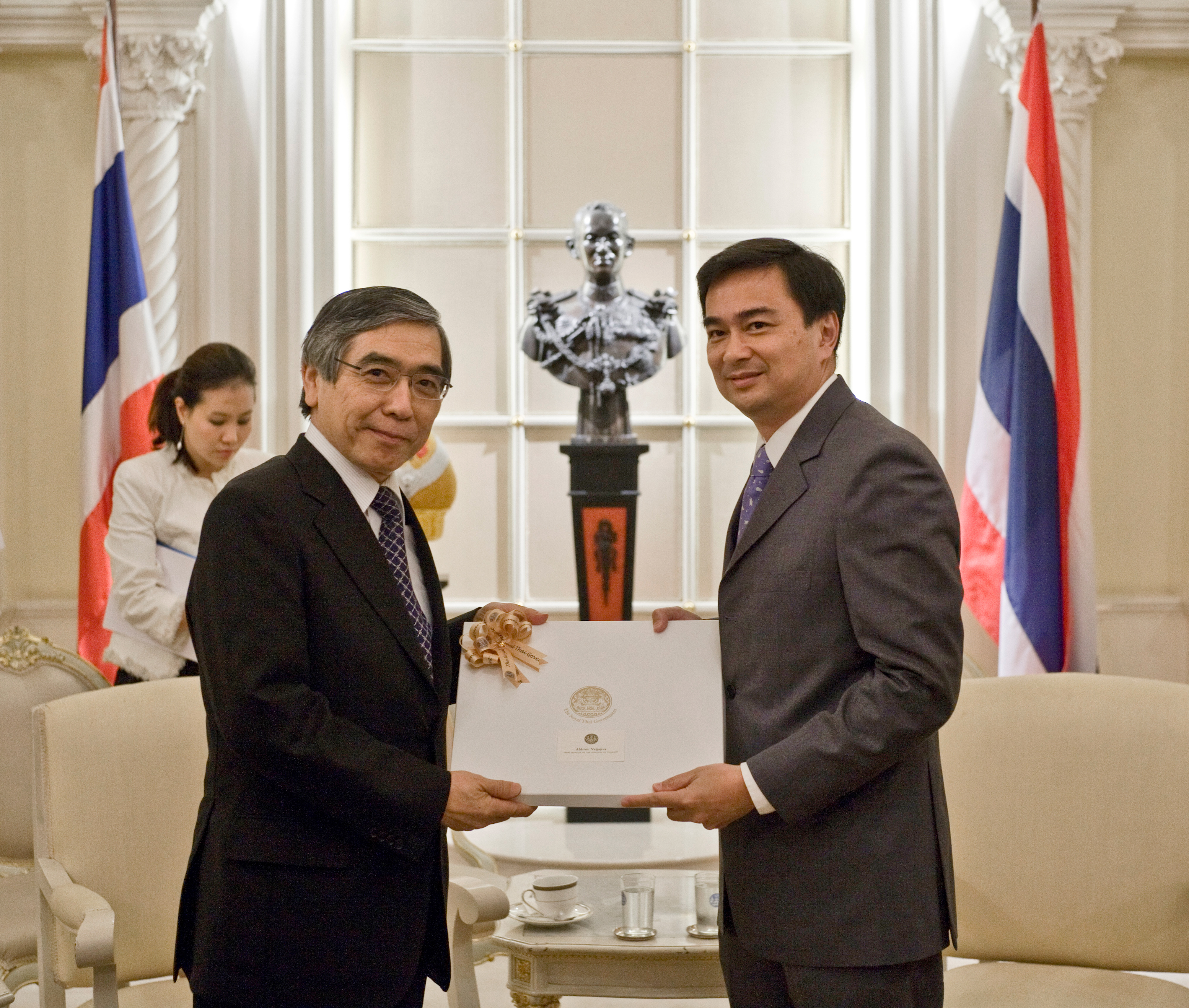 The president of the Asian Development Bank (ADB) Haruhiko Kuroda (黒田東彦) paid a courtesy visit to the Prime Minister of Thailand Abhisit Vejjajiva at the secretariat of the Cabinet in the Government House of Thailand, on November 10, 2010.